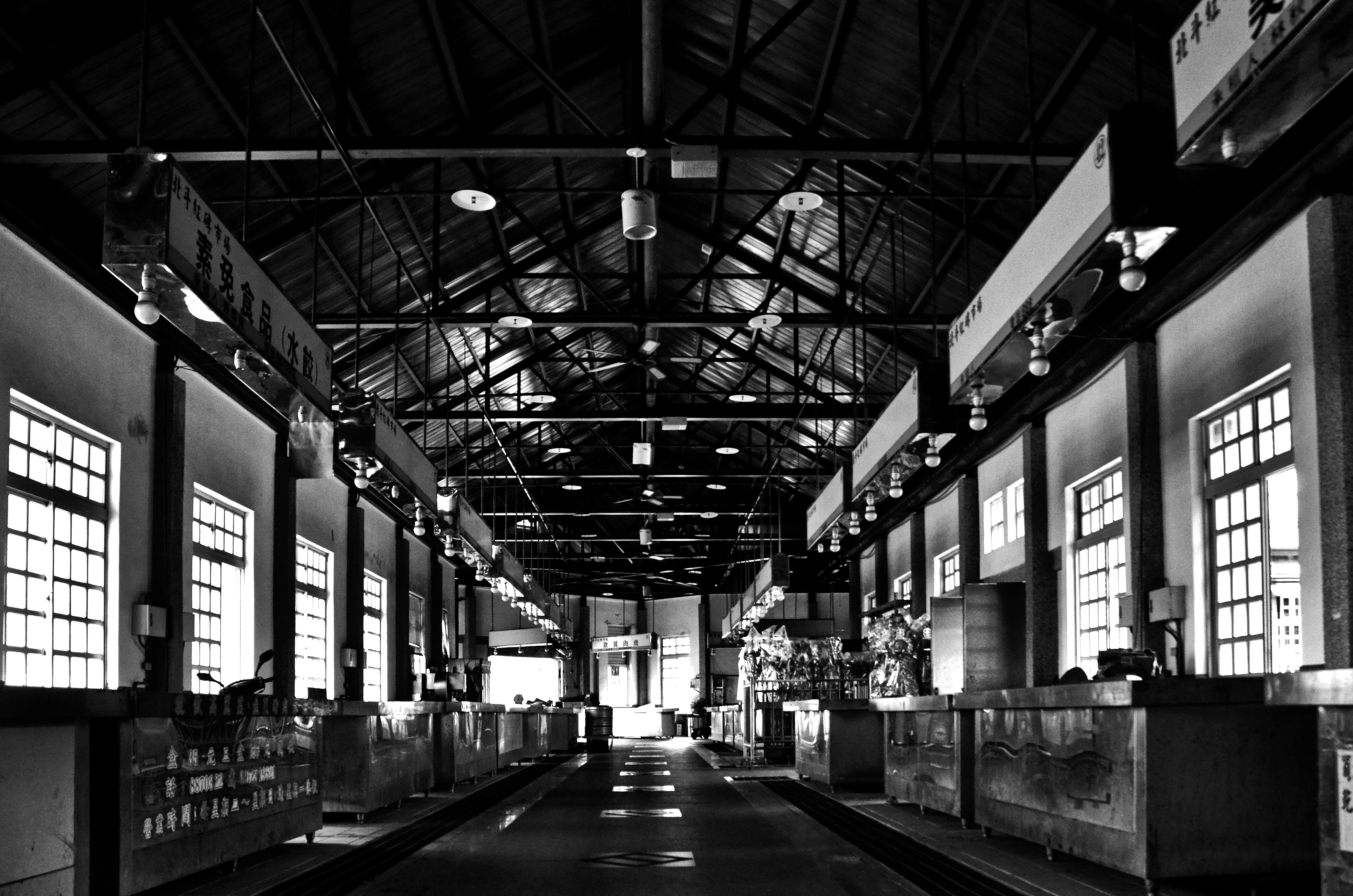 Beidou Red-Brick Traditional Market, Beidou Township, Changhua County, Taiwan.